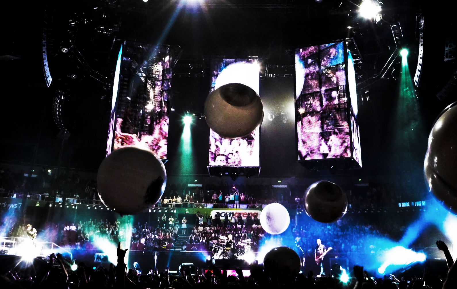 Muse playing "Plug in Baby" at Acer Arena Sydney (9/12/2010)